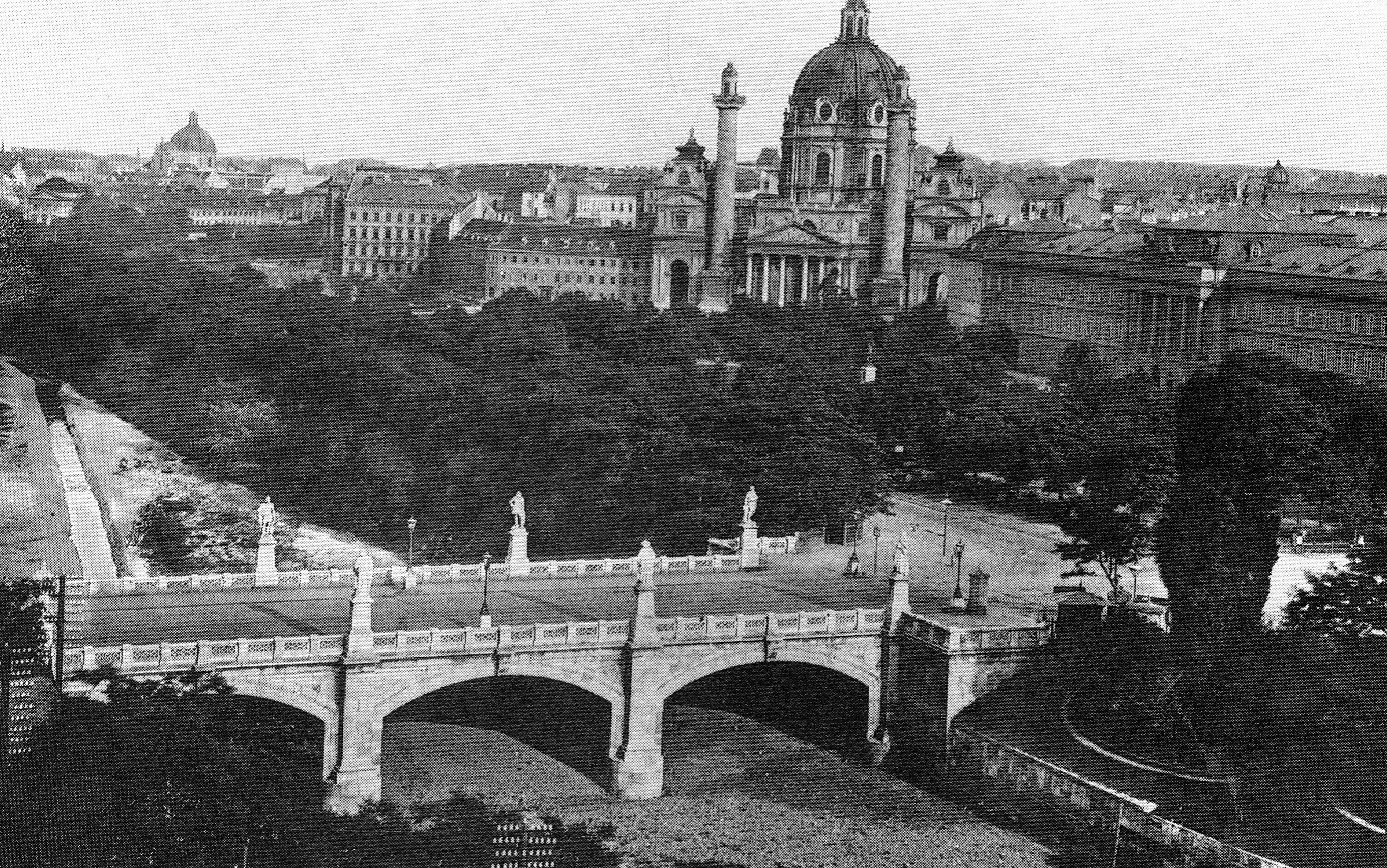 Elisabethbruecke crossing Wien River (existed 1854 -1897)